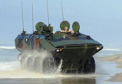 U.S. Marine Corps Amphibious Combat Vehicle testing